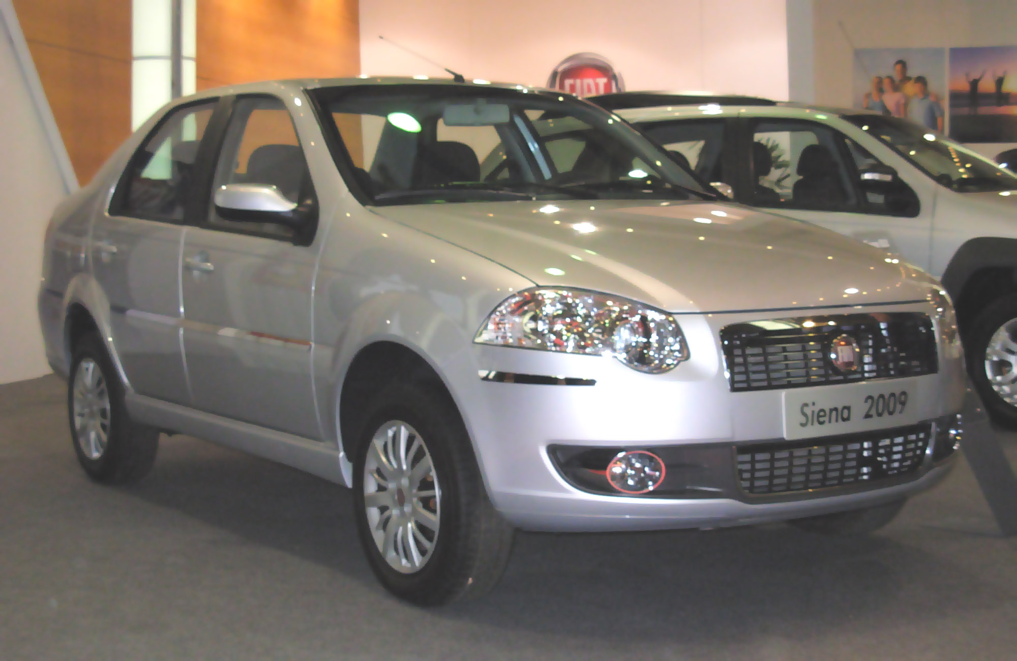 Front view of a Fiat Siena 2009 at the 2008 Montevideo Motor Show